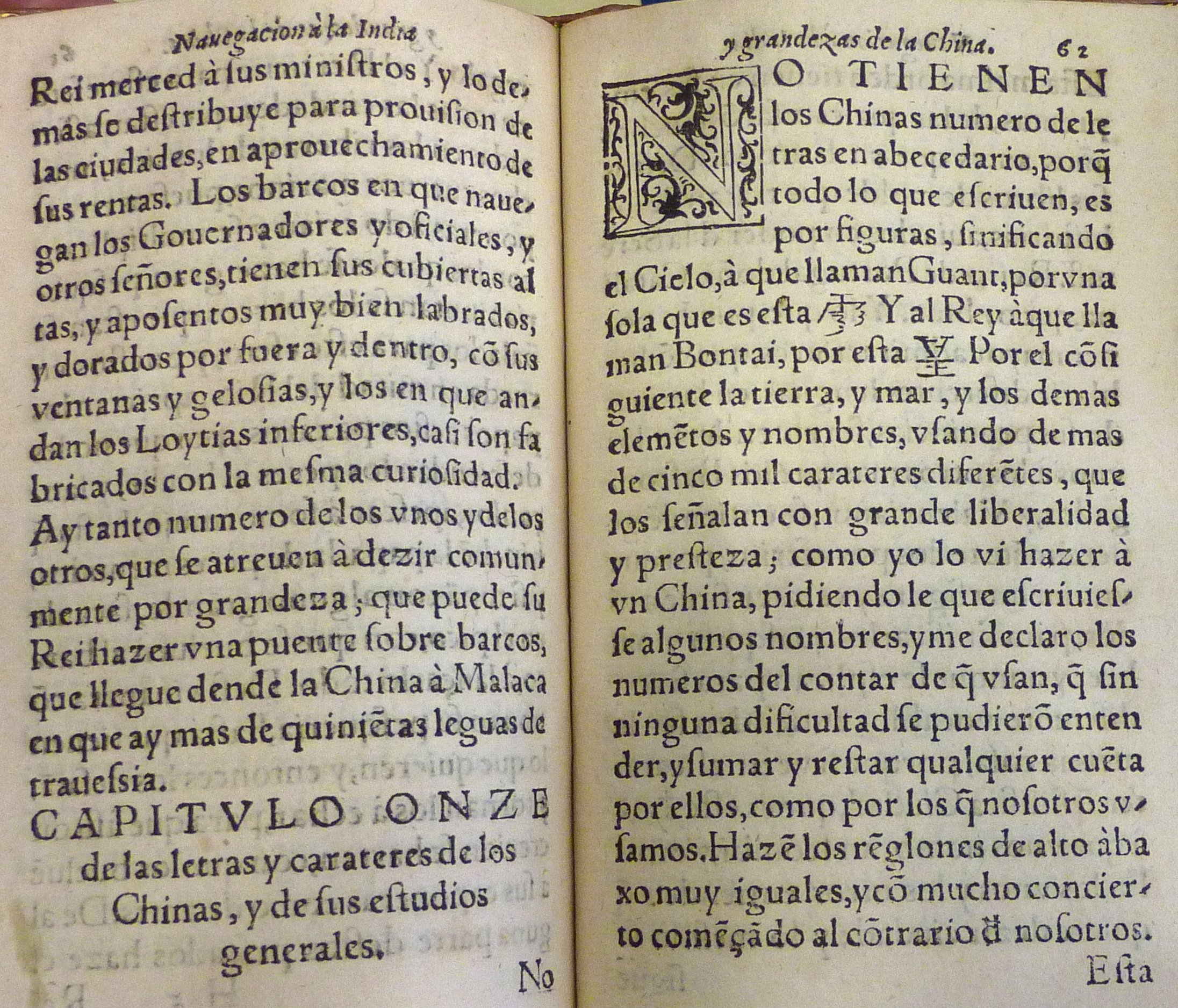 The Discurso de la navegación que los portugueses hazen a los reinos y provincias del oriente, y de la noticia que se tiene del reino de China by Bernardino de Escalante (1577). This is one of the very few surviving copies of this book, from Lilly Library, Bloomington, Indiana. Folios 61 (verso) and 62 (recto).